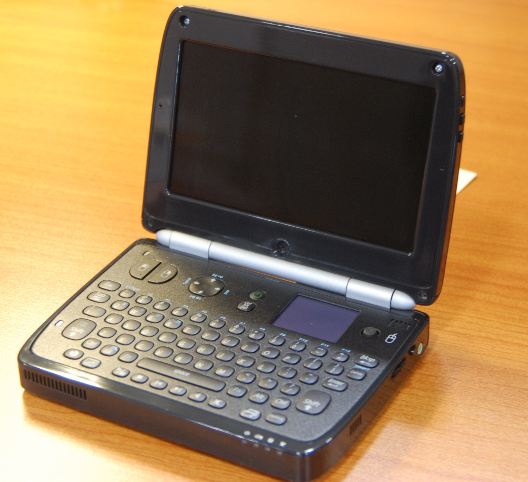 Open Vulcan Flip Start. On display at the Living Computer Museum.